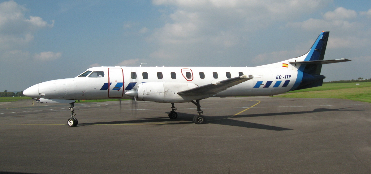 Fairchild Metro EC-ITP operating Manx2 flight to Jersey at Gloucestershire Airport 21 Sept 2008